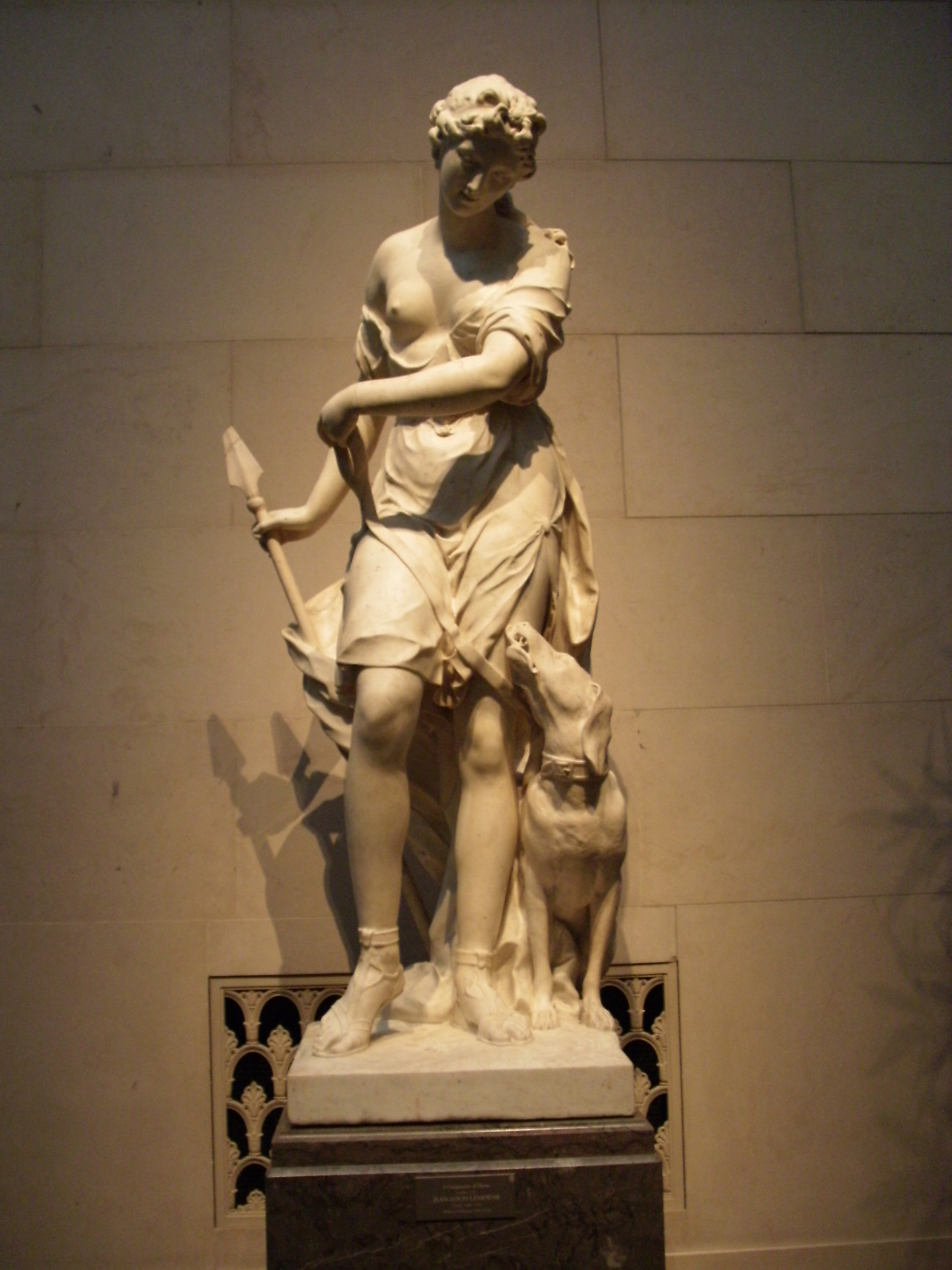 A Companion of Diana, Washington, D.C., National Gallery of Art; marble, H. 182.5 cm, W. 76.5 cm, D. 57.8 cm